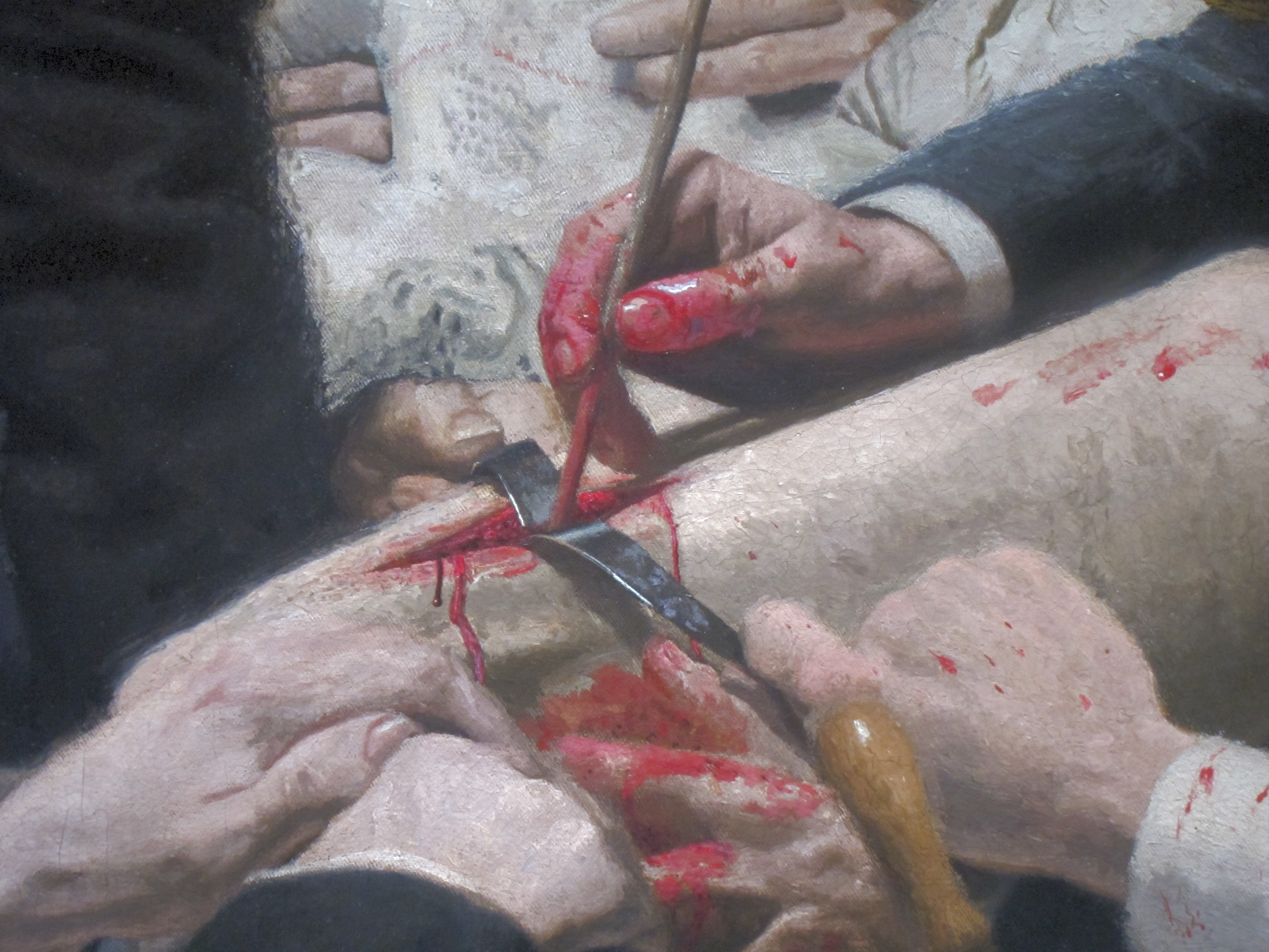 Detail from The Gross Clinic by Thomas Eakins